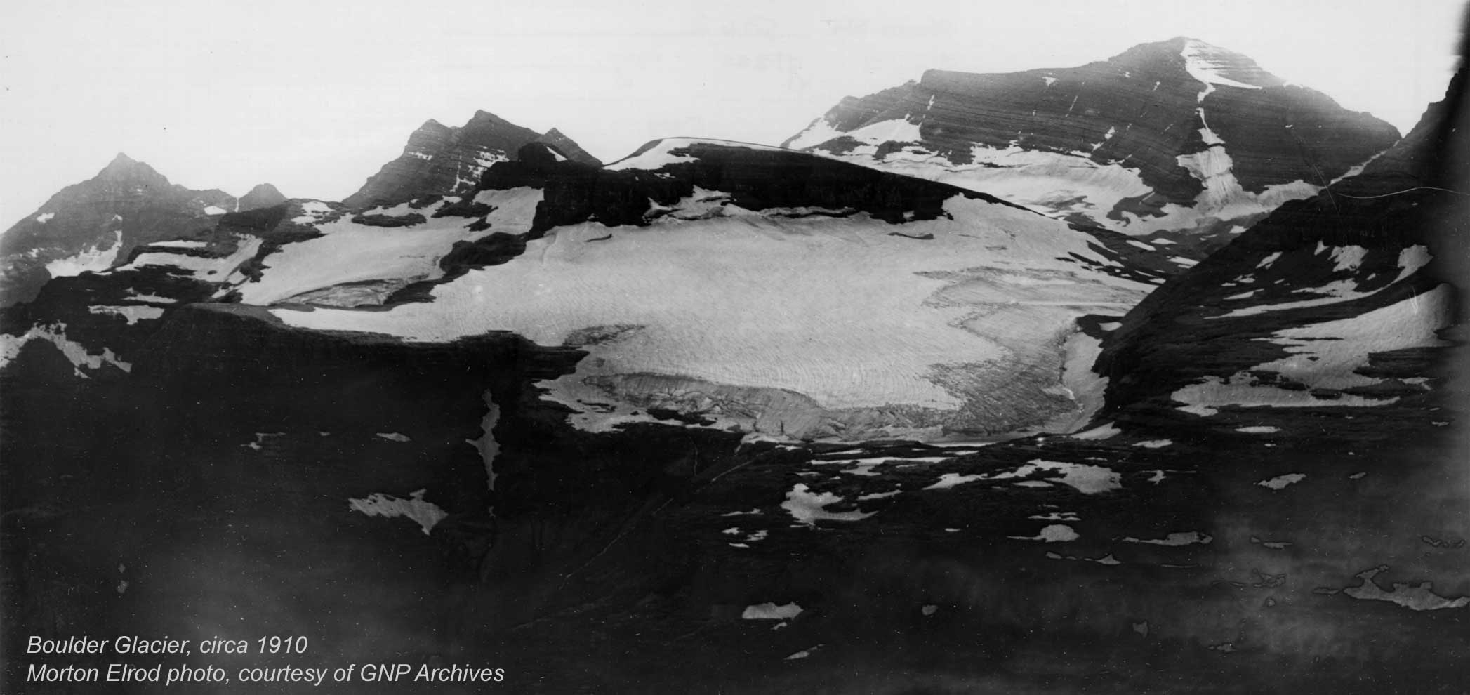 Boulder Glacier — on Boulder Peak of the Livingston Range, in Glacier National Park, Montana. As seen in 1910.